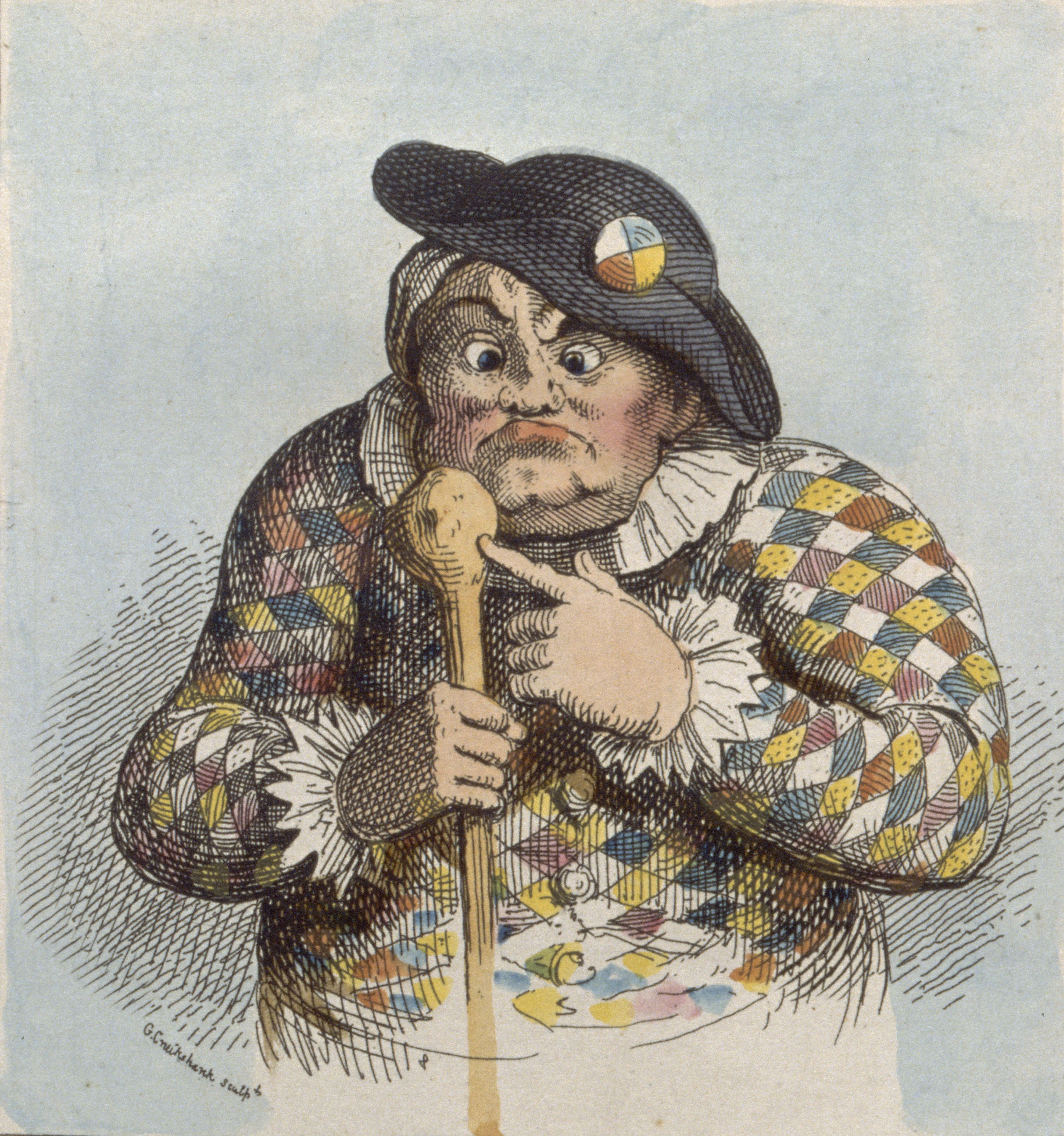 Sarah Mapp. Coloured etching by G. Cruikshank, 1819, after W. Hogarth. Iconographic Collections Keywords: portrait prints; Sarah Mapp; George Cruikshank; etchings; William Hogarth